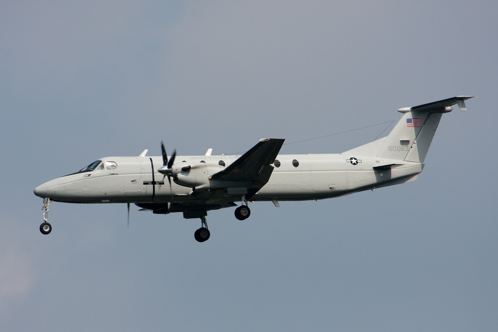 Aircraft: Beechcraft C-12J(sn: 86-0083) Squadron: 459AS / 374AW Base: USAF Yokota AB(RJTY) Tokyo, Japan 20/08/2010 USAF Yokota AB, Japan